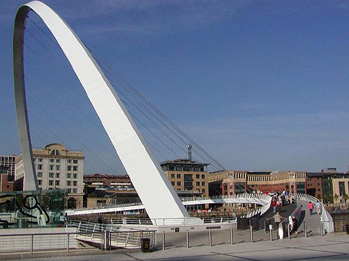 Gateshead Millennium Bridge close. From English Wikipedia image:Millenium_bridge_close.jpg